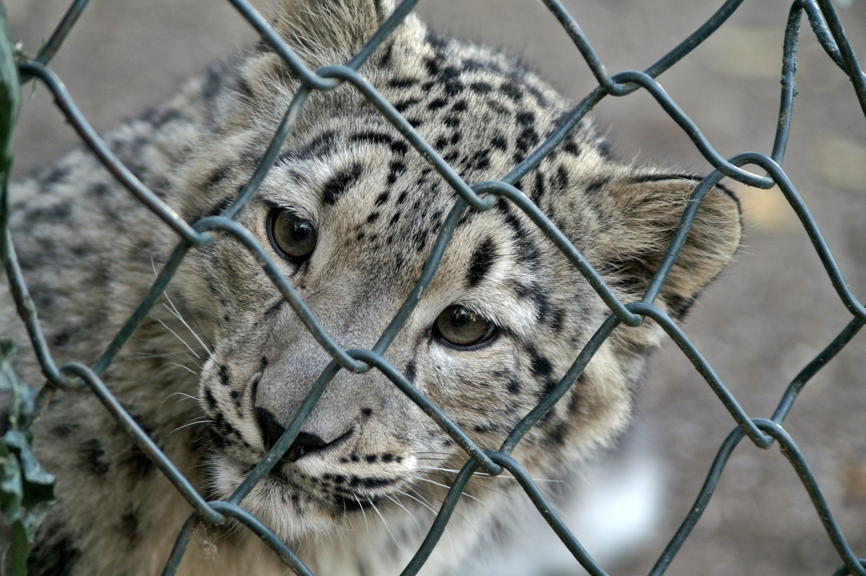 Snow leopard in captive